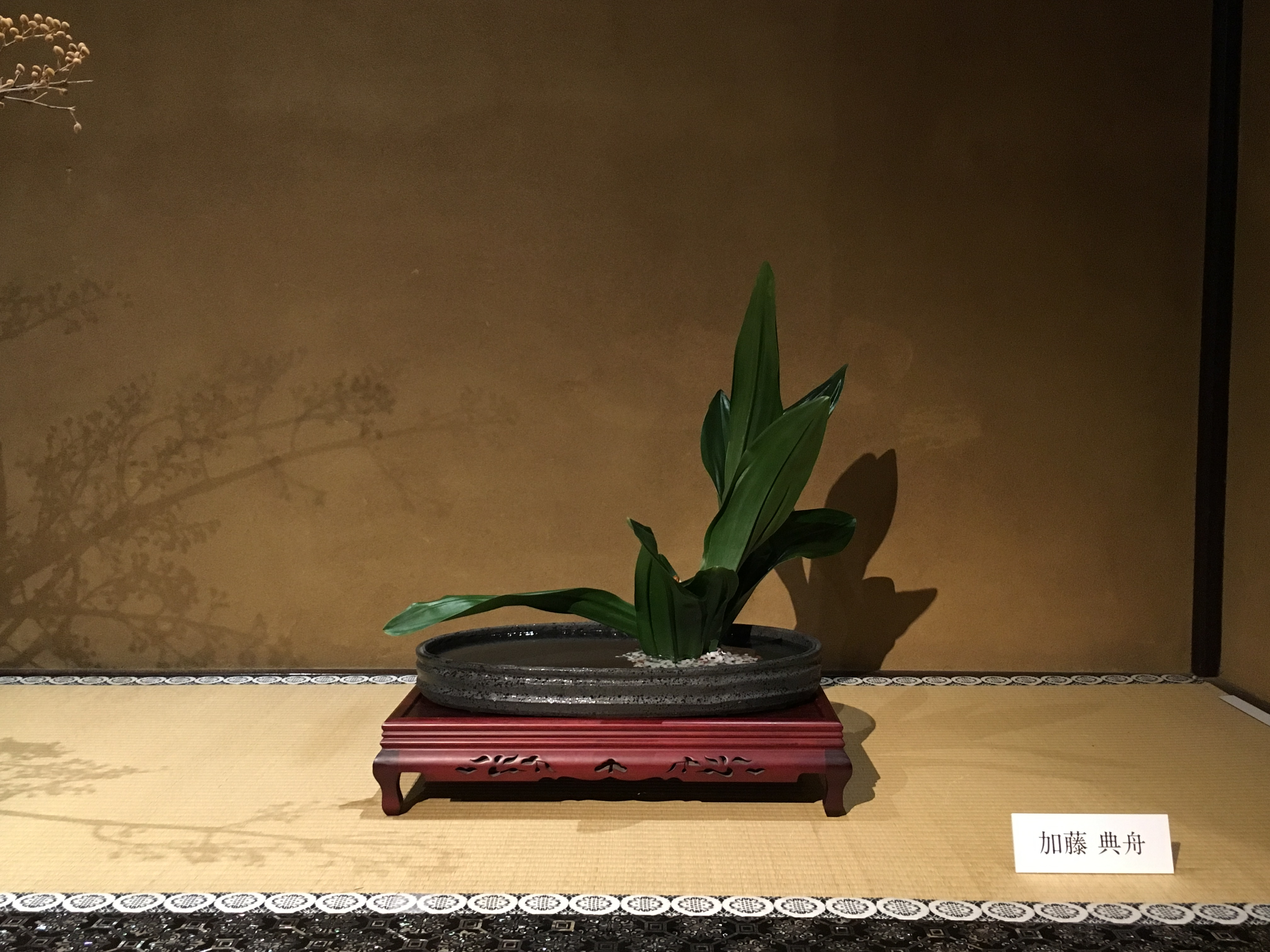 Traditional arrangement of Kinka Ikenobō using omoto (rohdea japonica). 51 different schools of Ikebana belonging to the largest Ikebana organization in Japan, the “Public Interest Incorporated Foundation Japan Ikebana Art Association,” presented their works in exhibitions at the Meguro Gajoen that changed weekly. From the traditional Rikka (vase arrangement) with flowers and fruits that embody autumn colors to the dynamic Jiyuuka (free-style arrangement) that utilized the entire room, works from various schools were shown in one exhibition. Photographing was permitted for the first time that year.